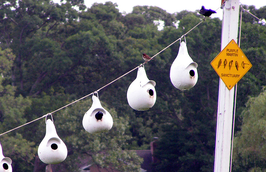 Purple Martin Sanctuary Best Viewed Large